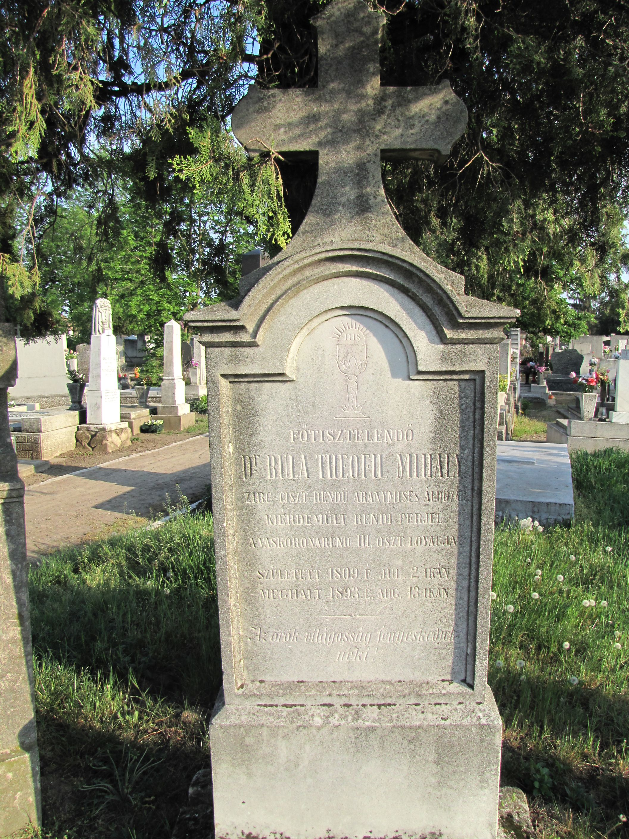 Tomb of Theofil Bula, Előszállás.